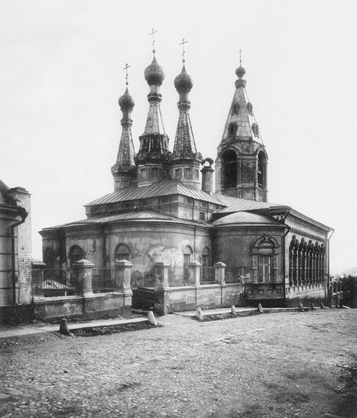 Church of the Resurrection in Gonchar, destroyed by the Bolsheviks in 1932